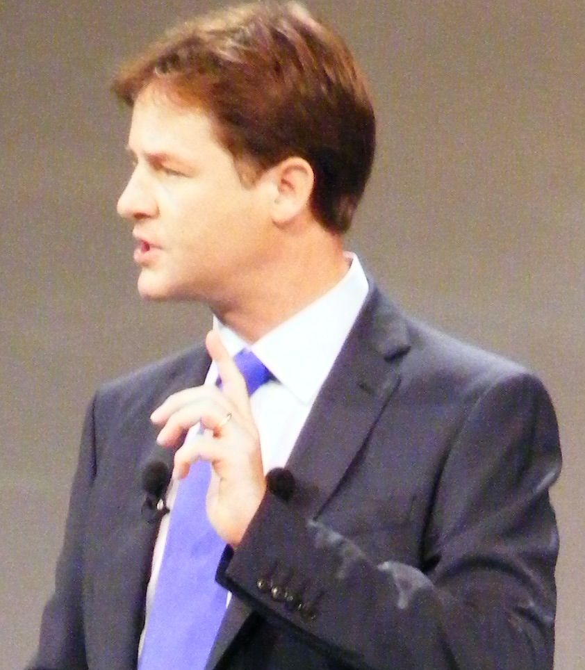 Nick Clegg makes the Liberal Democrats' Leader's Speech.